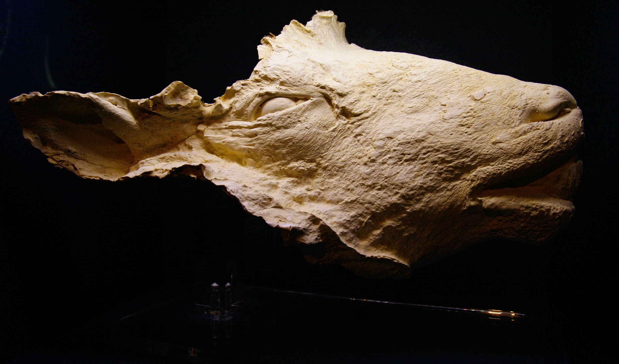 Death mask of cloned sheep Dolly (loan from the National Museums Scotland to Naturhistorisches Museum in Vienna).